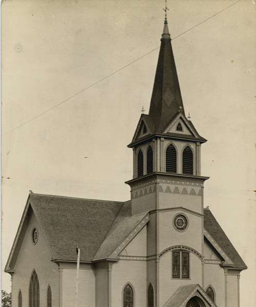 Postcard of Viking Lutheran Church, Maddock, North Dakota. Image is in the public domain. Source info at NDSU web site shows postmark date of June 9, 1914